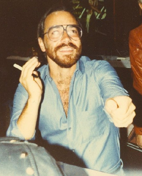 Photo of jazz guitarist Al Di Meola.